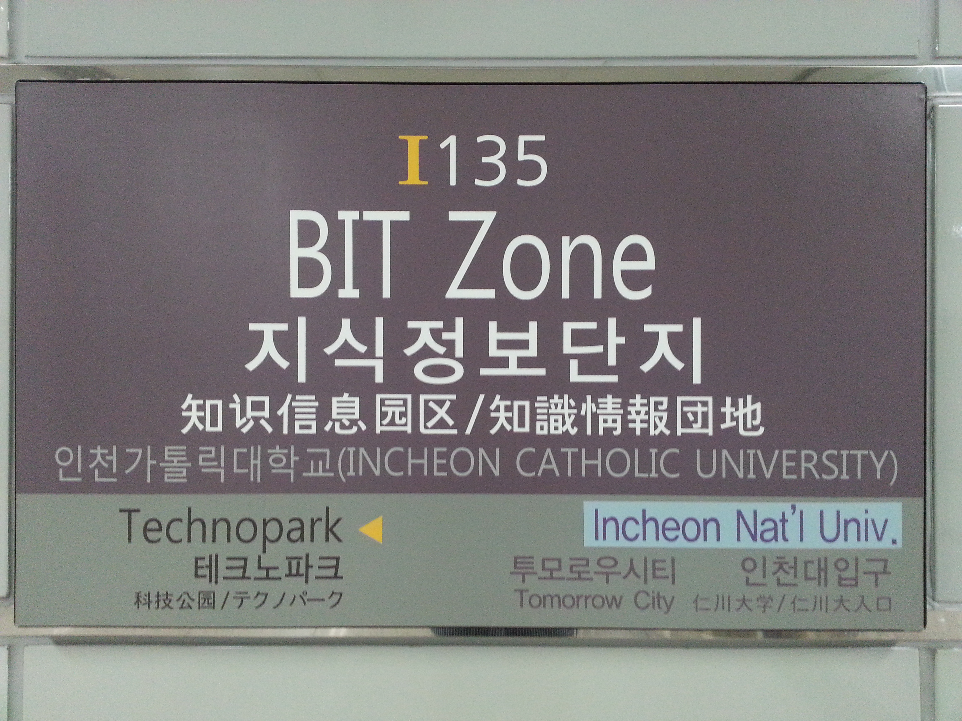 Incheon Metro 1st Line Bio Information Technology Zone St.